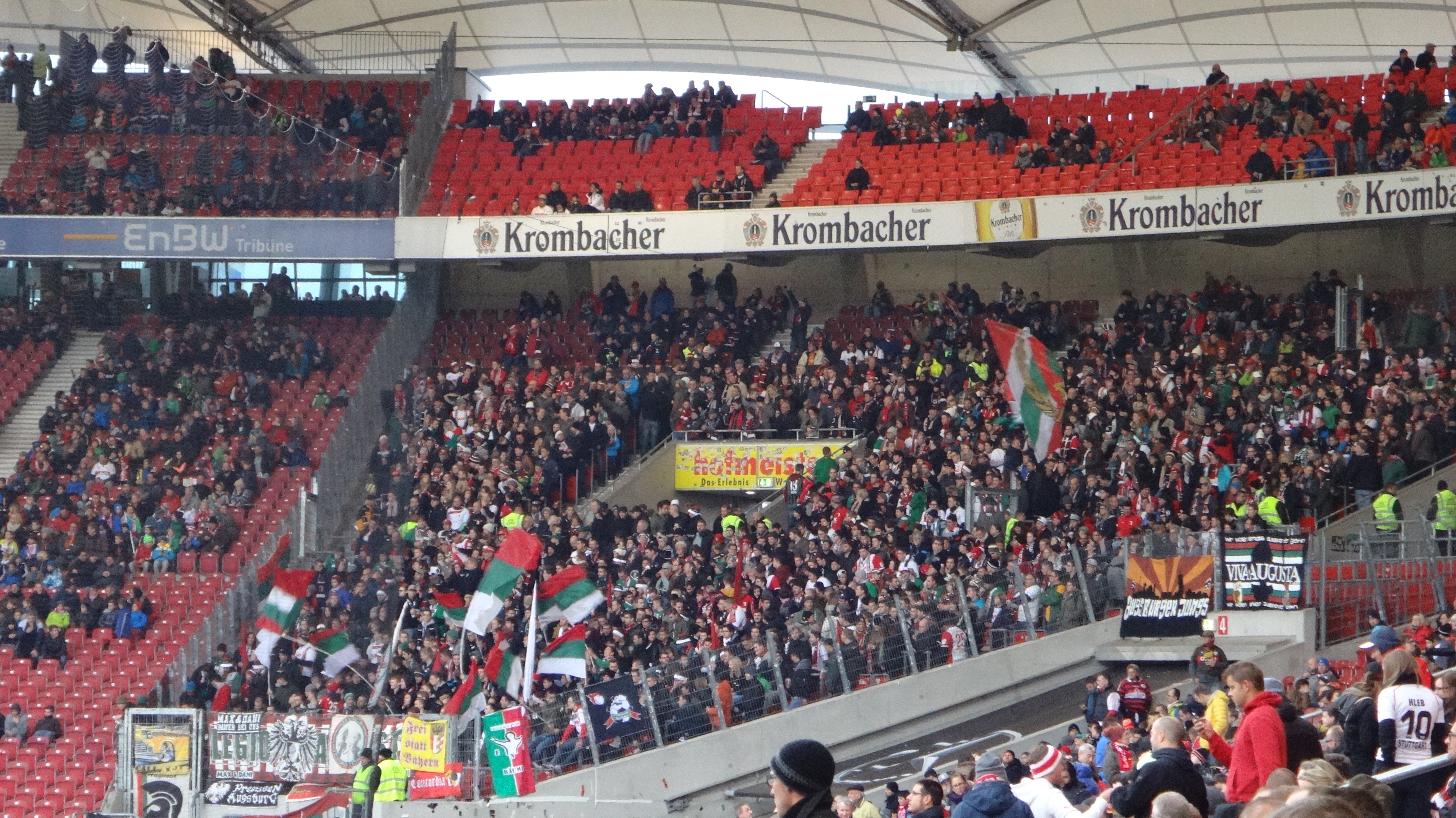 Supporters of FC Augsburg